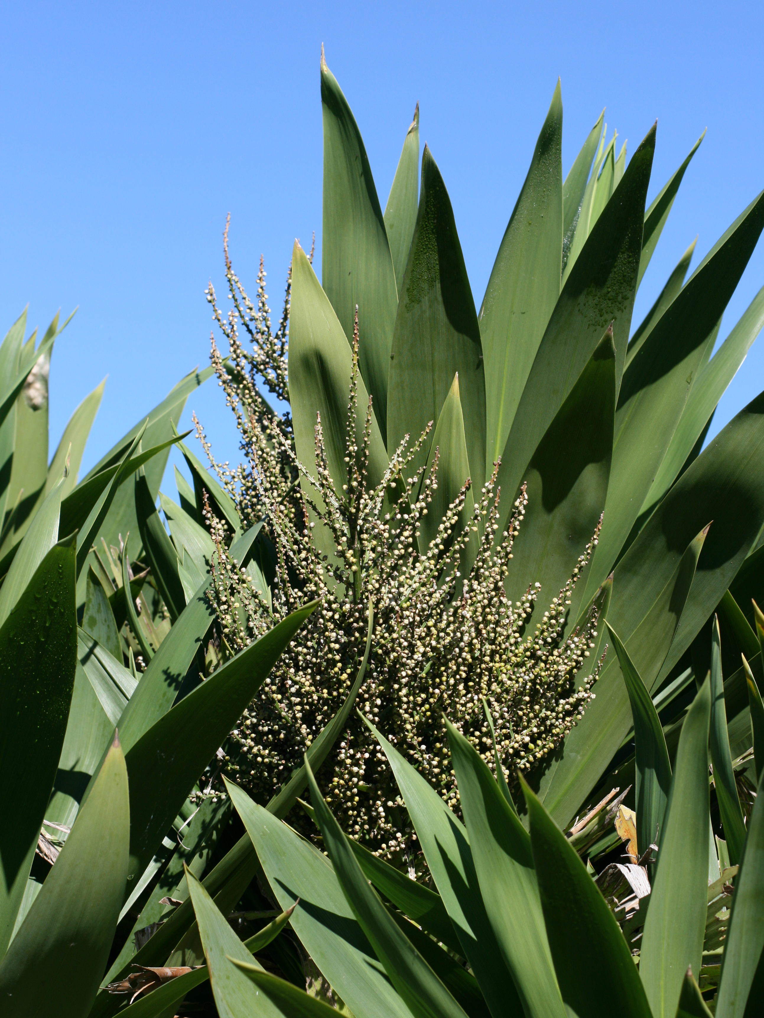 foliage and fruiting panicle of Cordyline obtecta, Auckland, New Zealand